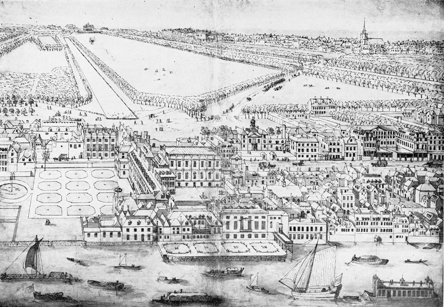 View of the Palace of Whitehall by Leonard Knijff, c. 1695-7